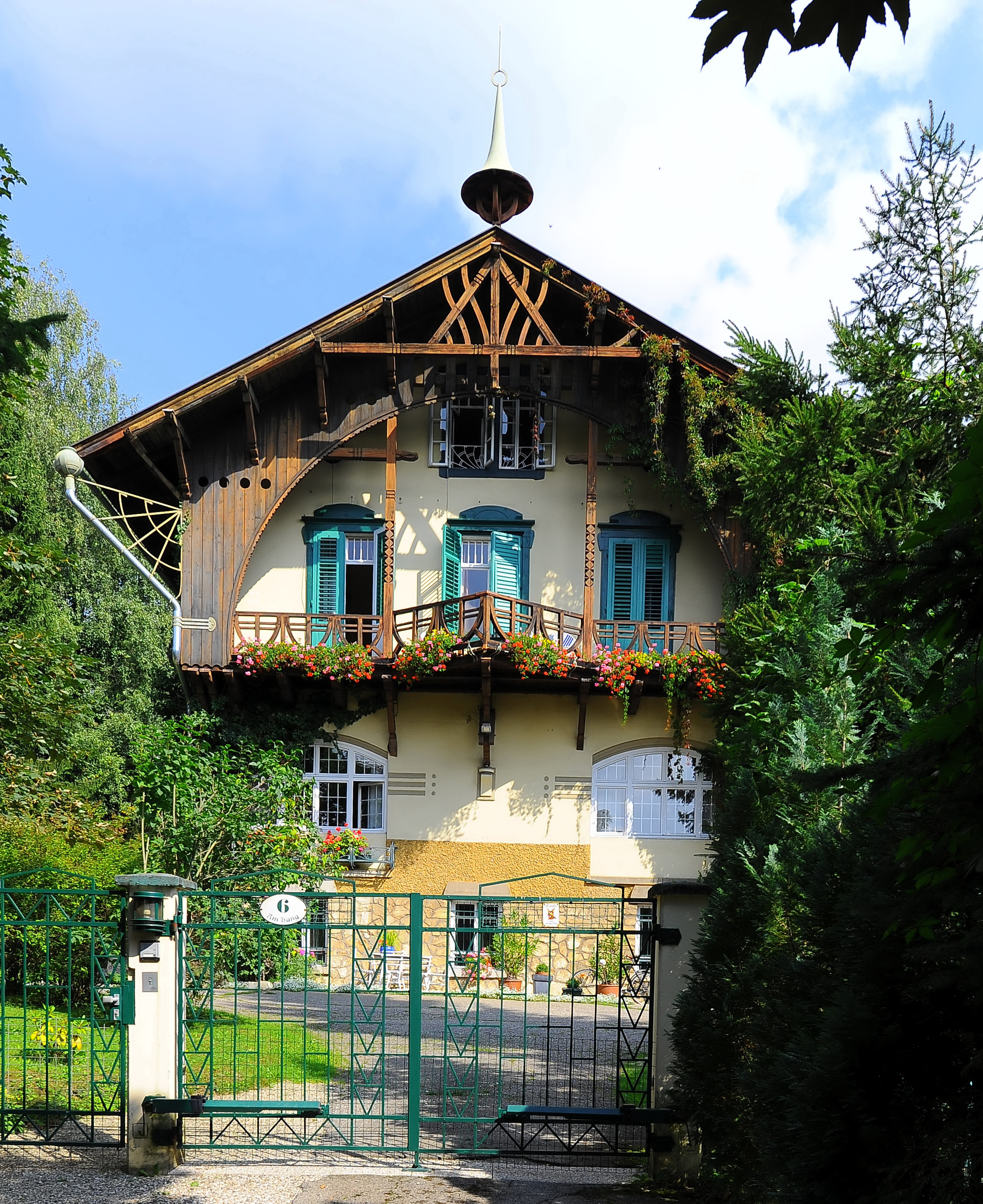 Villa Haybaeck (architectural design 1902/03 by Karl Haybaeck) on Am Hang #6, municipality Krumpendorf, district Klagenfurt Land, Carinthia, Austria, EU